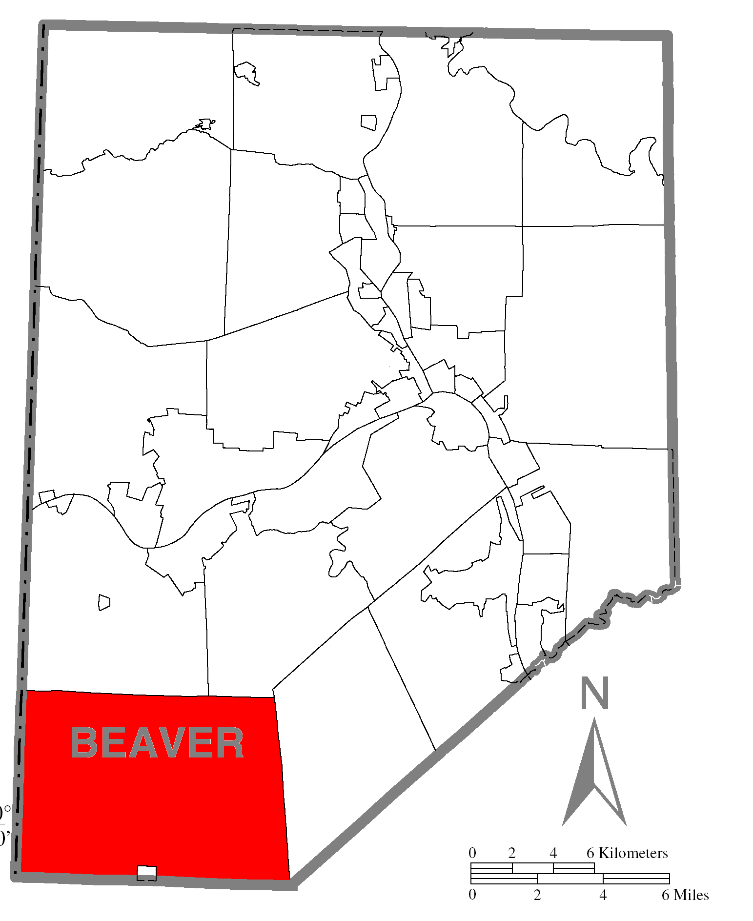 A map of Beaver County showing Hanover Township, Pennsylvania (alternate) highlighted on the map.